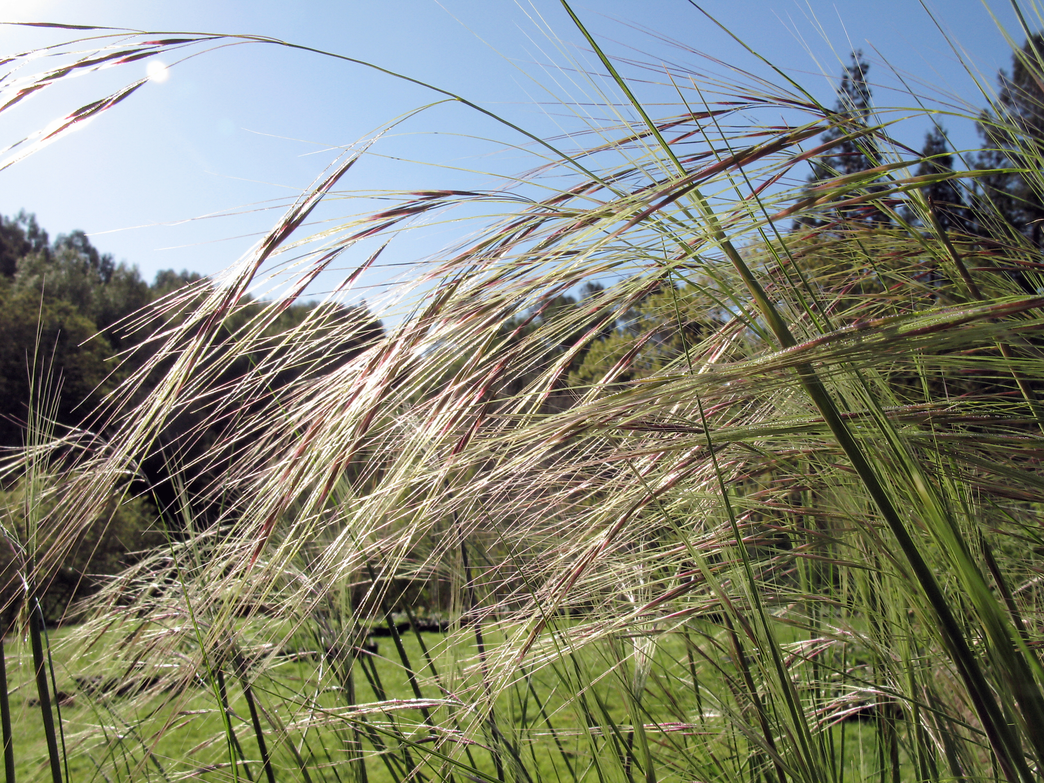 Stipa cernua—nodding needle grass (syn Nassella cernua).Photographed at Regional Parks Botanic Garden located in Tilden Regional Park near Berkeley, CA.